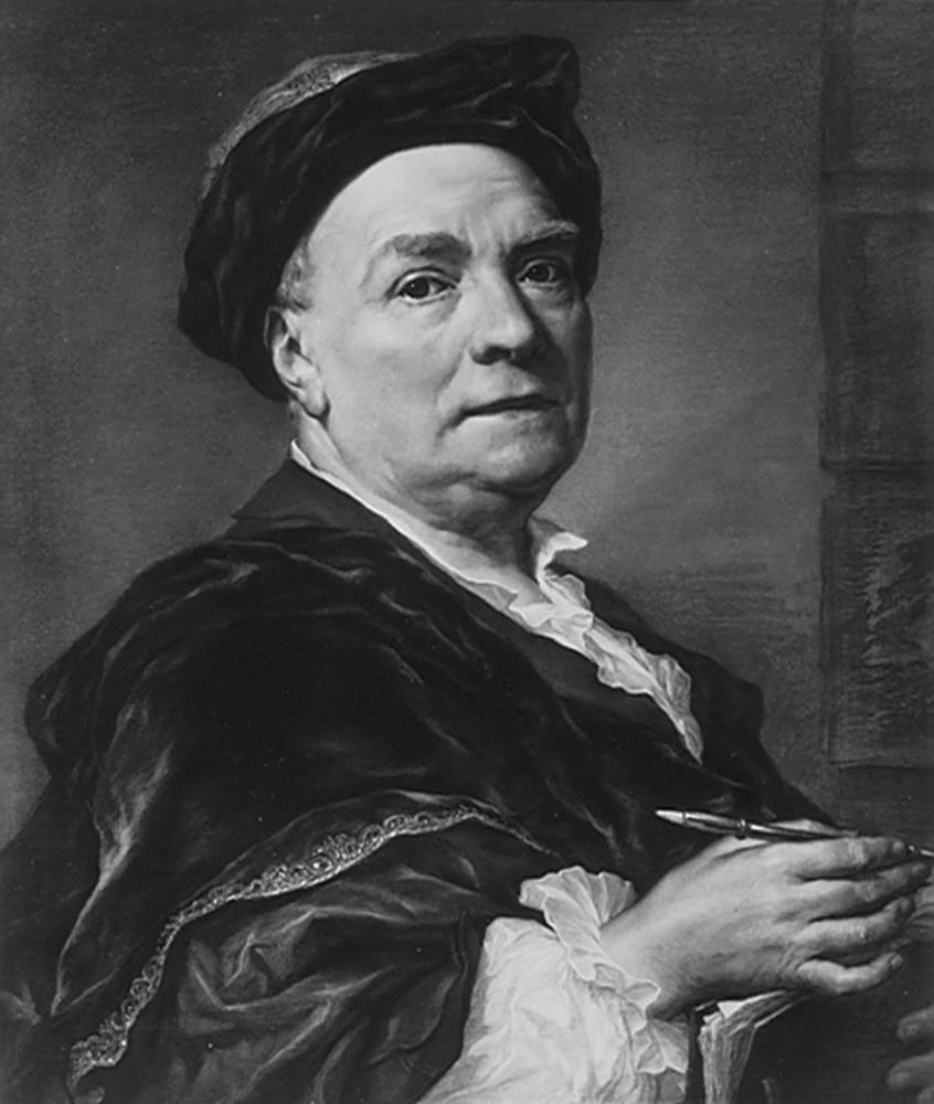 'The first court painter Louis de Silvestre', by Anton Raphael Mengs, painted ca. 1744-1746. This painting was part of the collections of the Gemäldegalerie Alte Meister in Dresden and and it has been missing since the end of World War II, in 1945. - Dimensions: 62,5 x 50,5 cm - Pastel on paper